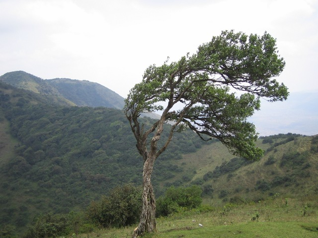 Ngong Hills, Kenya